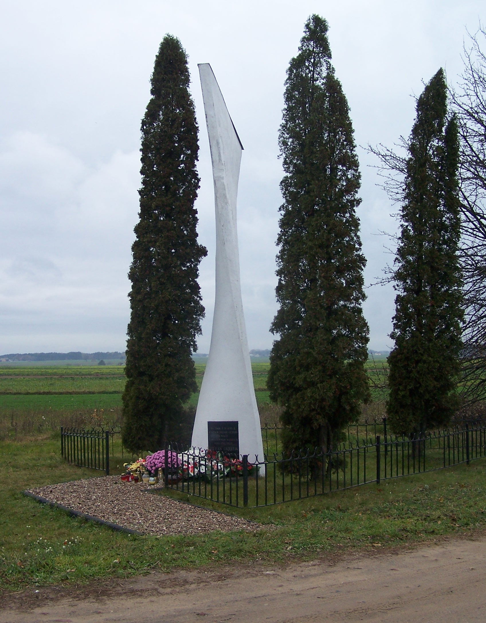 Monument of Stefan Stanisław Okrzeja, near Kręgi, Poland